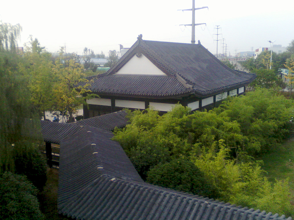 Traditional style buildings at Meiyuan (Plum Garden) in Yingquan district, Fuyang city, Anhui province, China. Meiyuan is a public park created in the style of a classical Chinese garden.